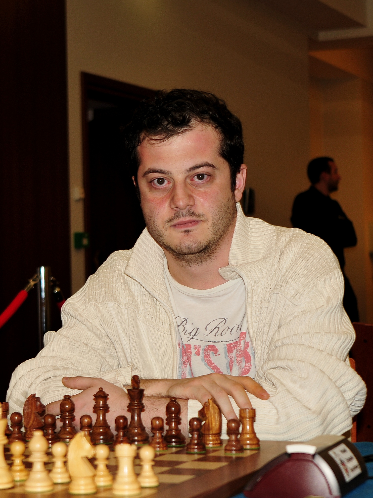 GM Levan Pantsulaia, European Chess Team Championship Warsaw 2013